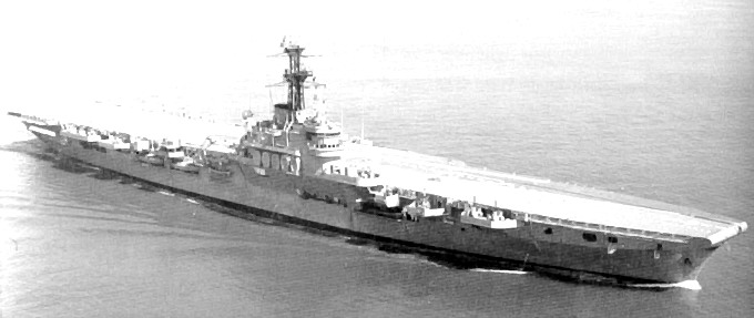 Aircraft carrier ARA Independencia underway